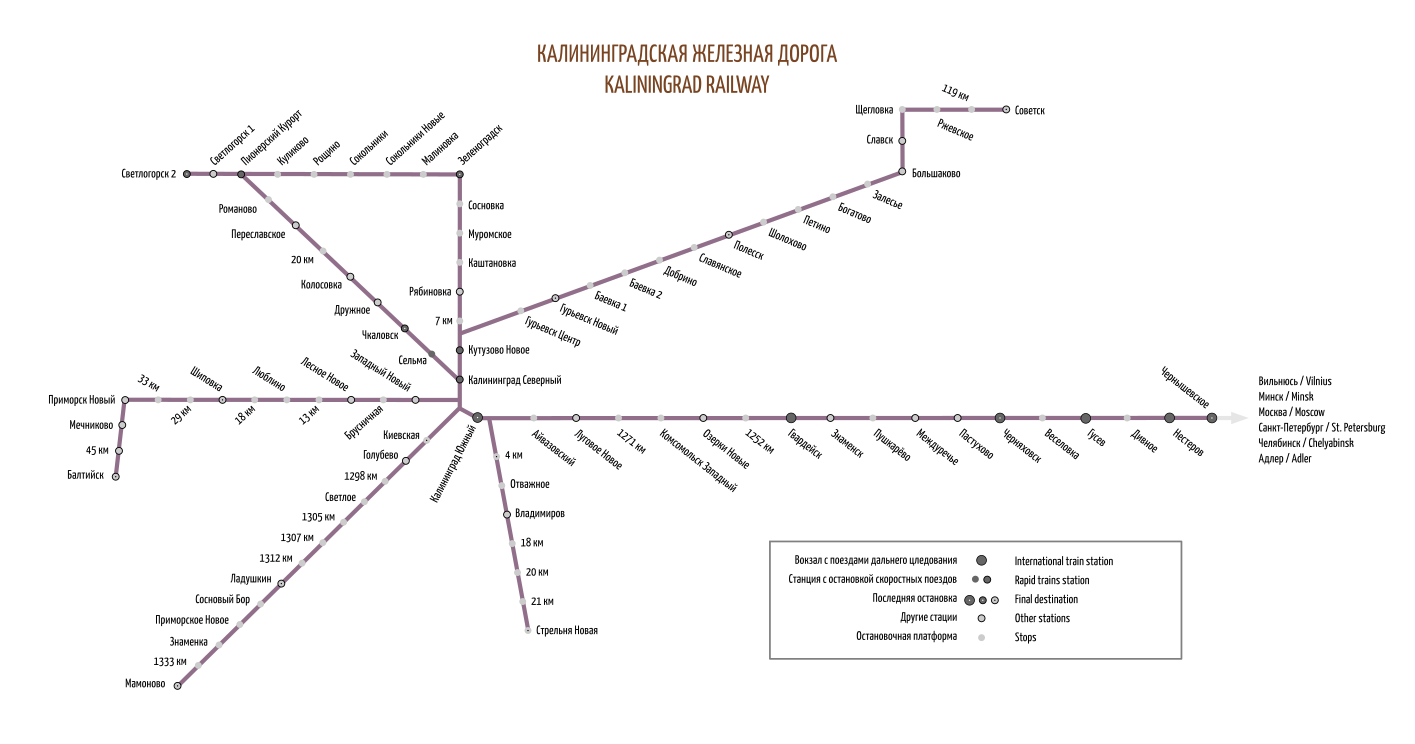 Detailed scheme of Kaliningrad railways